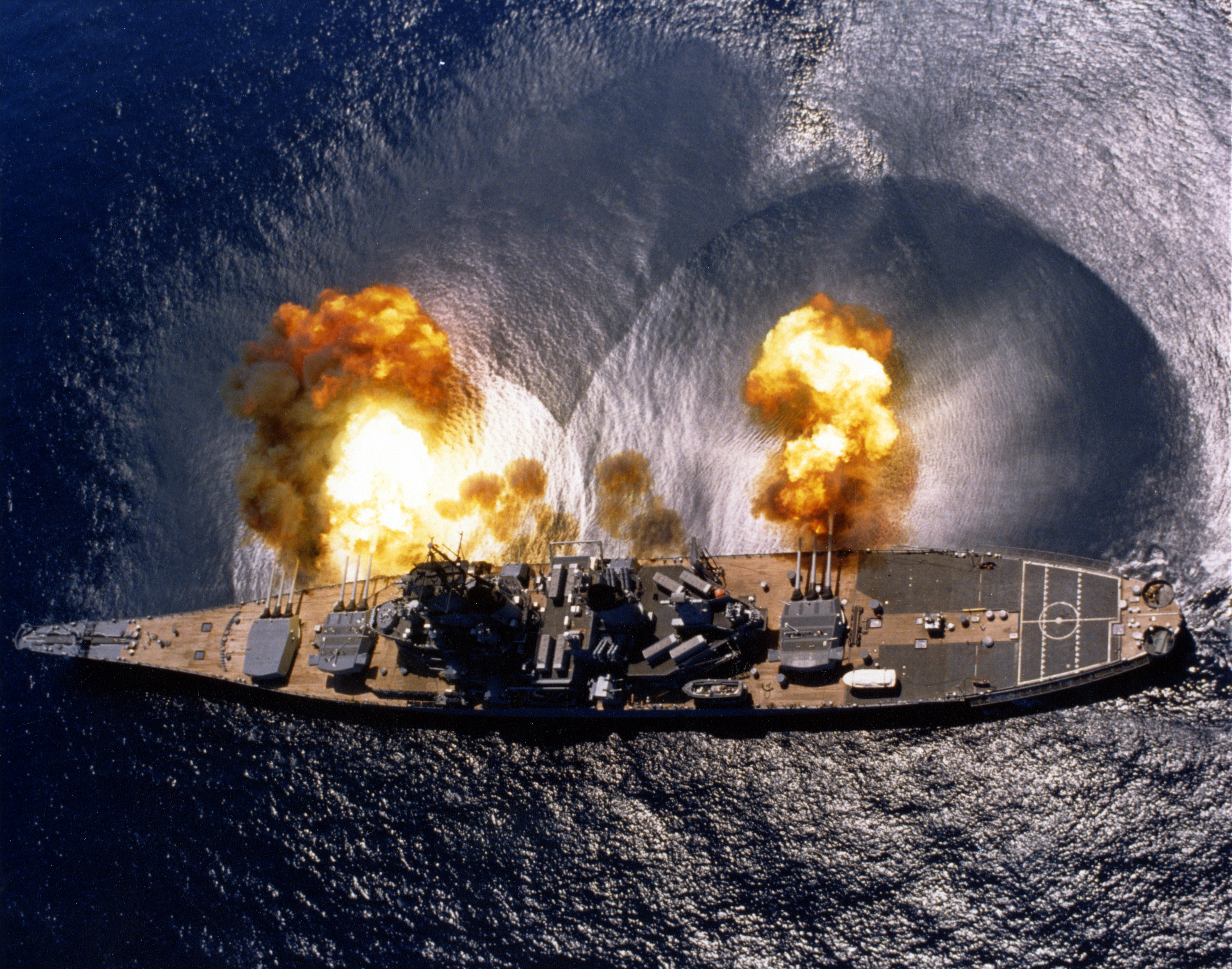 USS Iowa (BB-61) fires a full broadside of her nine 16"/50 and six 5"/38 guns during a target exercise near Vieques Island, Puerto Rico (21°N 65°W / 21°N 65°W). Note concussion effects on the water surface, and 16-inch gun barrels in varying degrees of recoil.